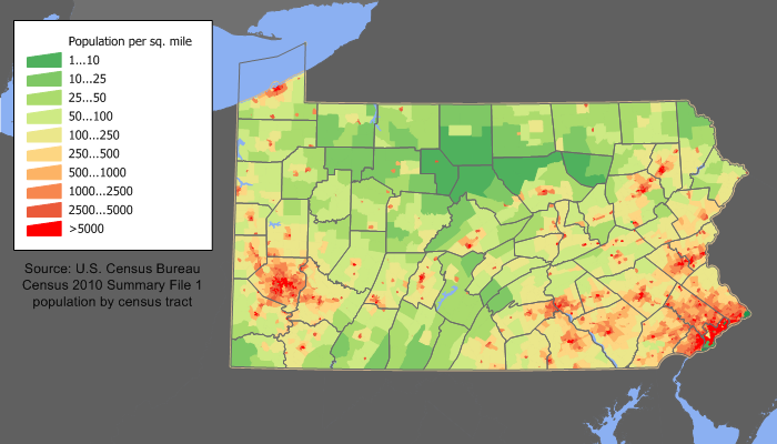 Population map of Pennsylvania, updated with 2010 census data.